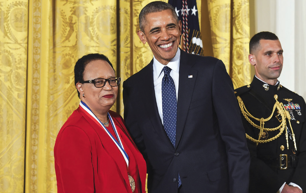 Picture copied from Renseelaer Polytechnic Institute